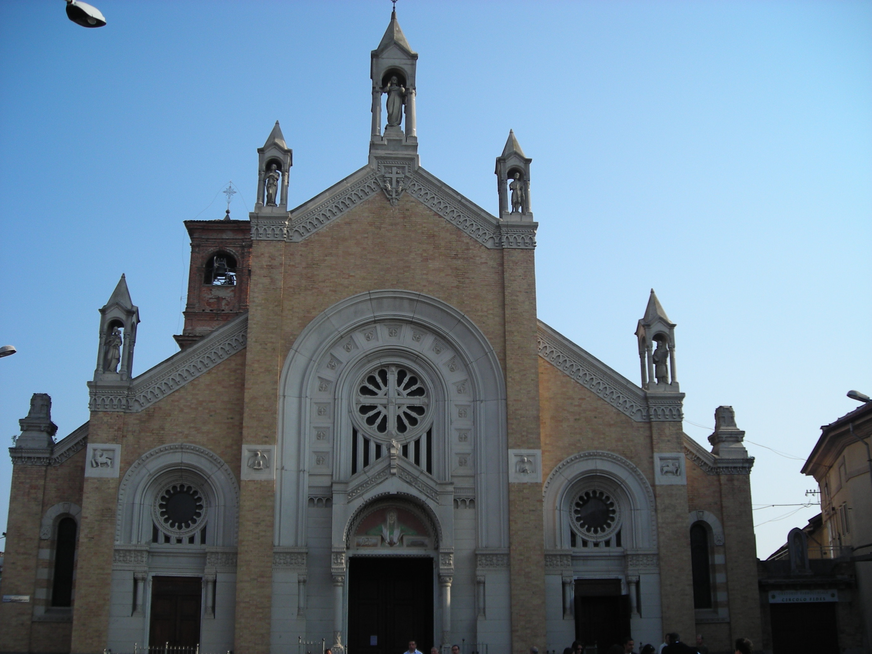 The frontage of the Parish of Leini (Turin), Saints Peter and Paul.